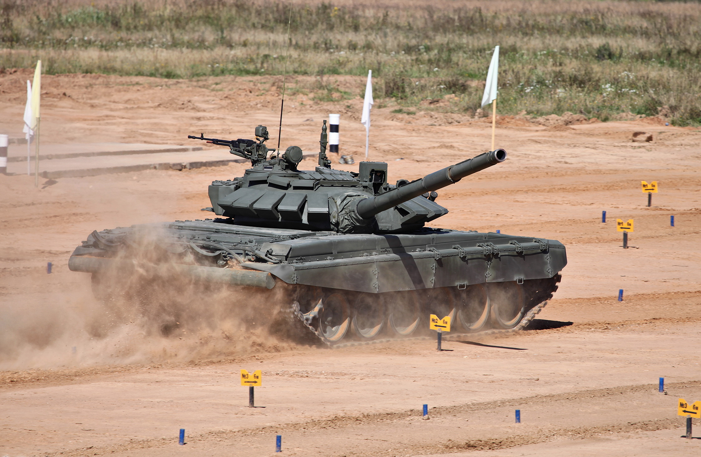 T-72B3